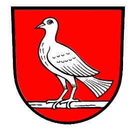 Coat of arms of Bruchhausen_bei_Karlsruhe